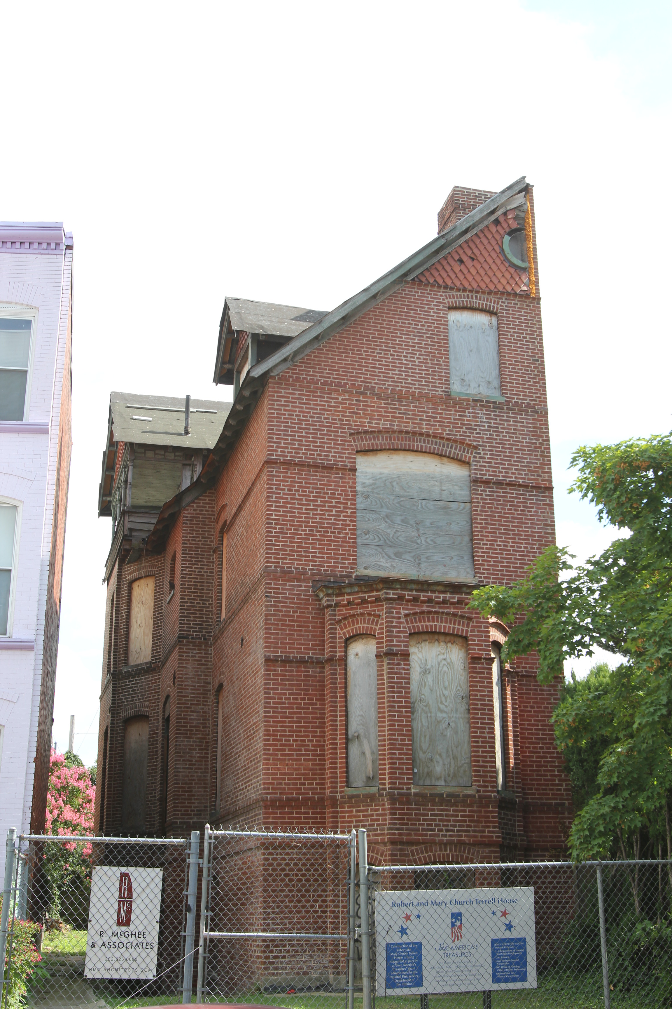 The Mary Church Terrell House — 326 T Street Northwest (Washington, District of Columbia). A National Historic Landmark, and a historic district contributing property on the National Register of Historic Places in Washington, D.C. Taken at WikiExpedition of WM2012 (Target:A-5).